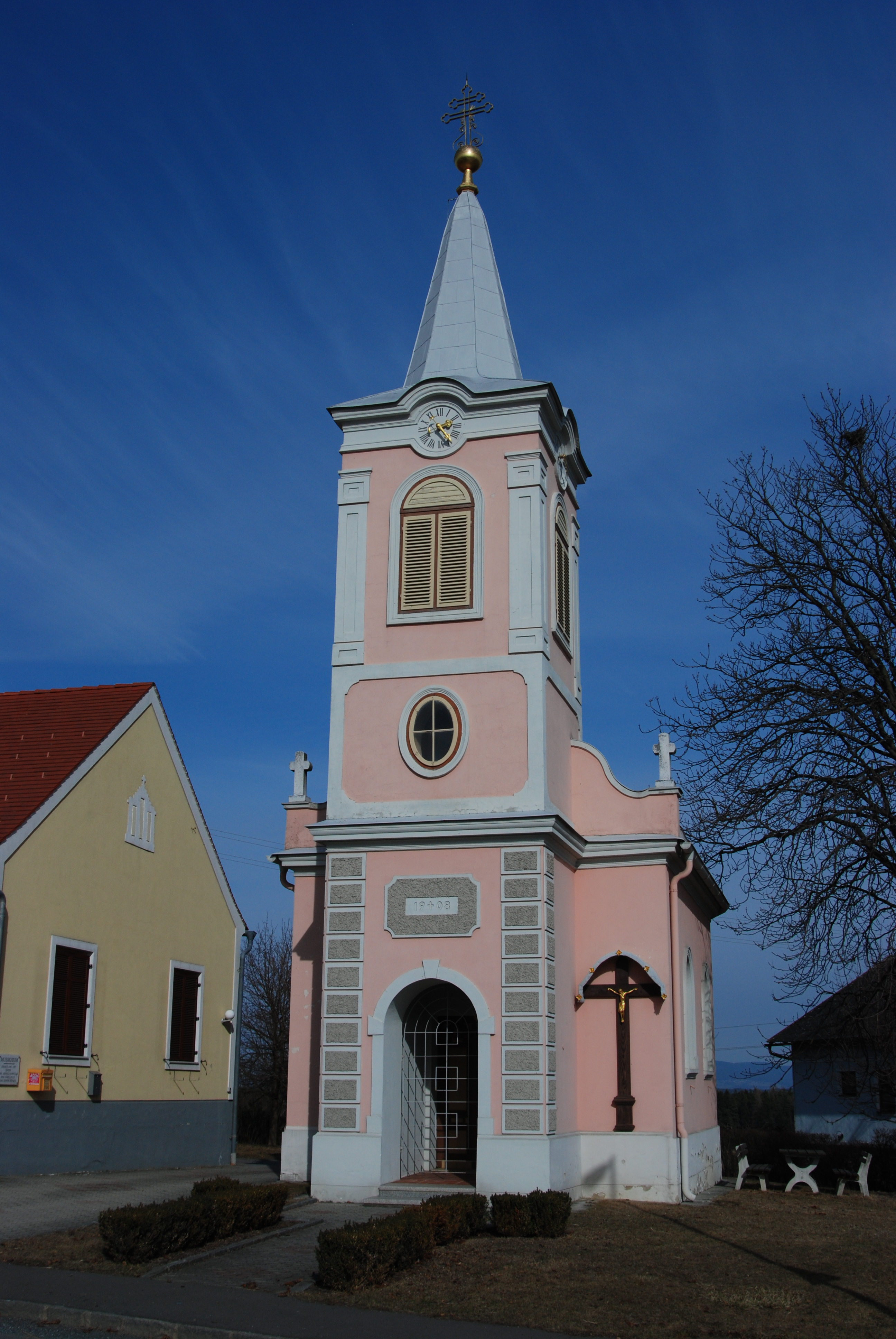 Ortskapelle Wörterberg